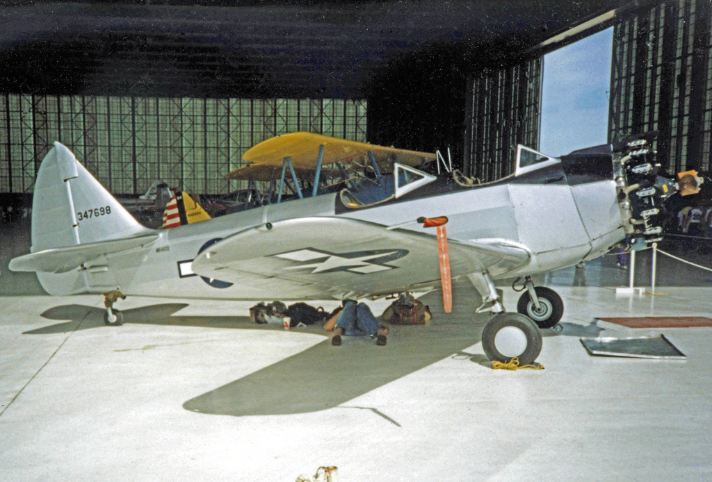 Fairchild PT-23 Cornell built by Aeronca and fitted with a Continental radial engine at Edwards AFB open day in 1990